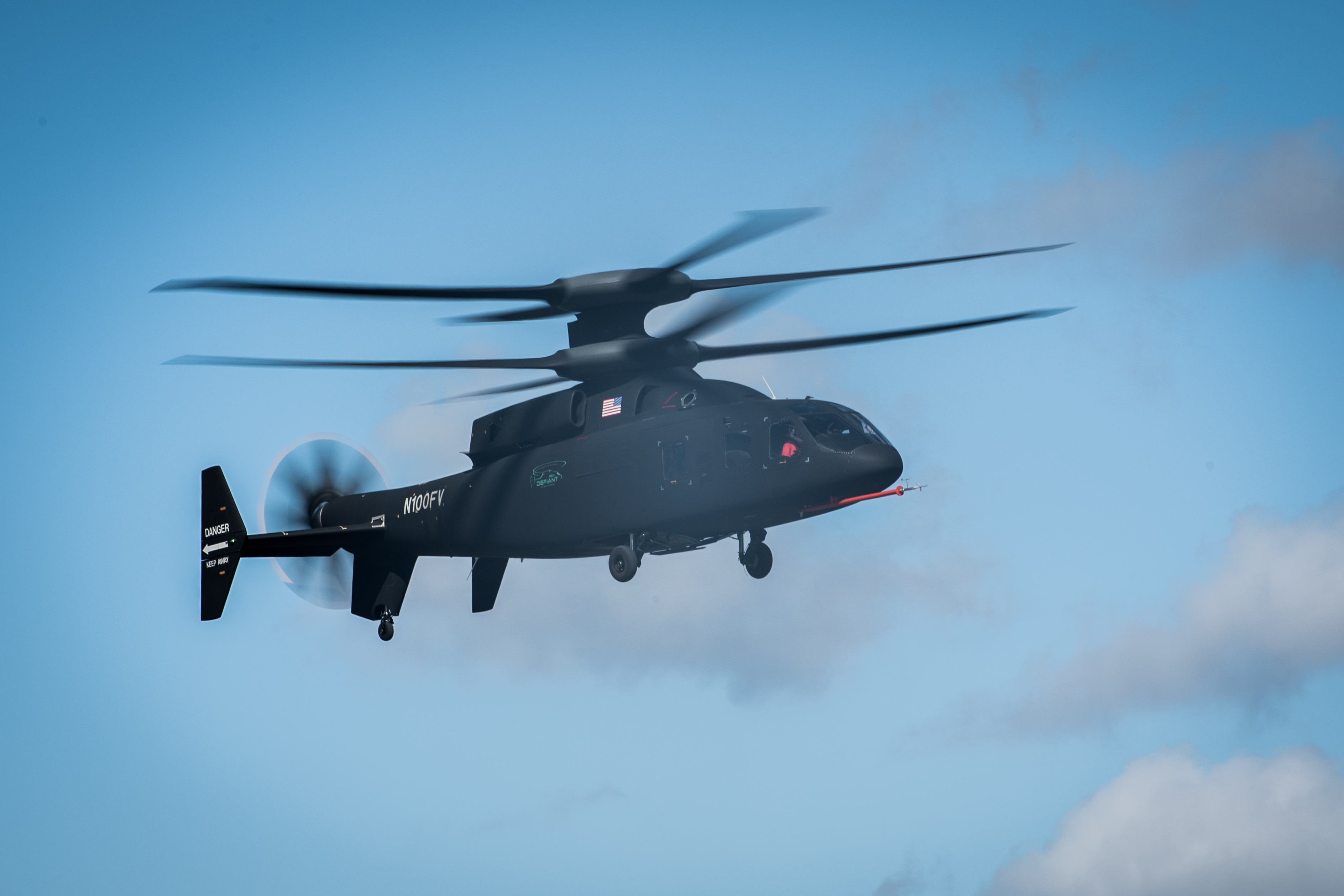 Secretary of the Army, Hon. Ryan D. McCarthy, attends a Boeing-Sikorsky flight demo of the SB-1 Defiant, the SARA, and the S-97 Raider at the William P. Gwinn airport in West Palm Beach, F.L., Feb. 20, 2020. (U.S. Army photo by Sgt. Dana Clarke)